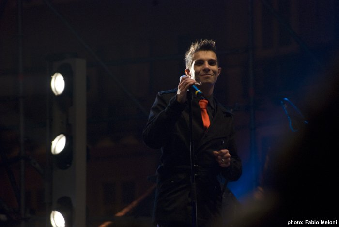 Italian singer Marco Carta in Cagliari in 2009